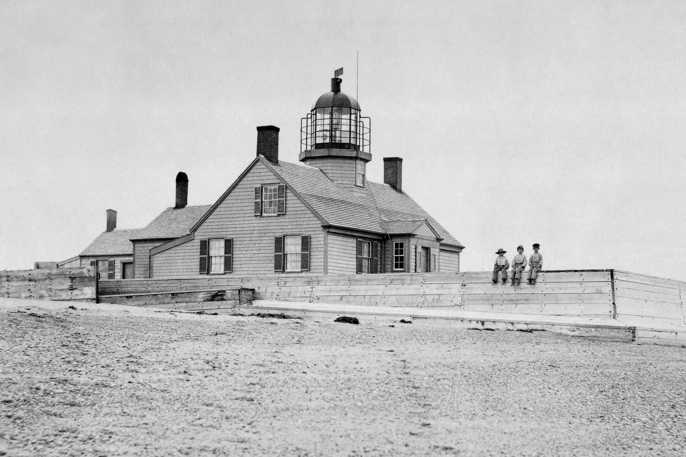 Long Point Light, 1827 lighthouse. Original caption: none; no date/photo number; photographer unknown. This is a photograph of the original Long Point Light Station and keeper's house. The date of the photo is known only to be between circa 1830 and 1838, since the seawall (pictured) was added later, and was mentioned in an 1838 report.